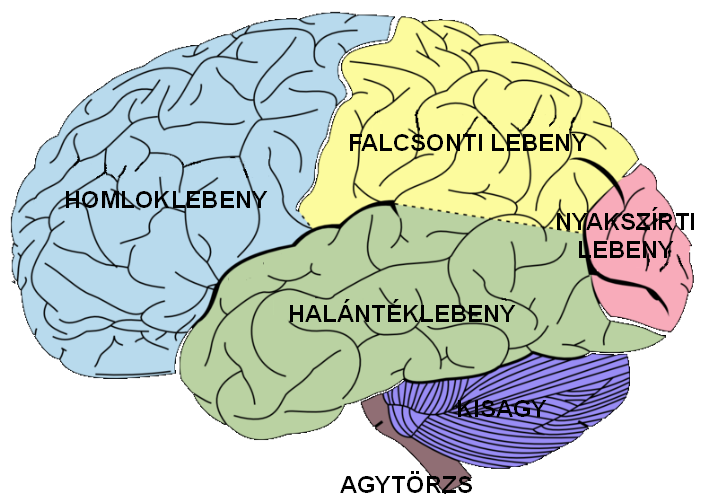 Principal fissures and lobes of the cerebrum viewed laterally.